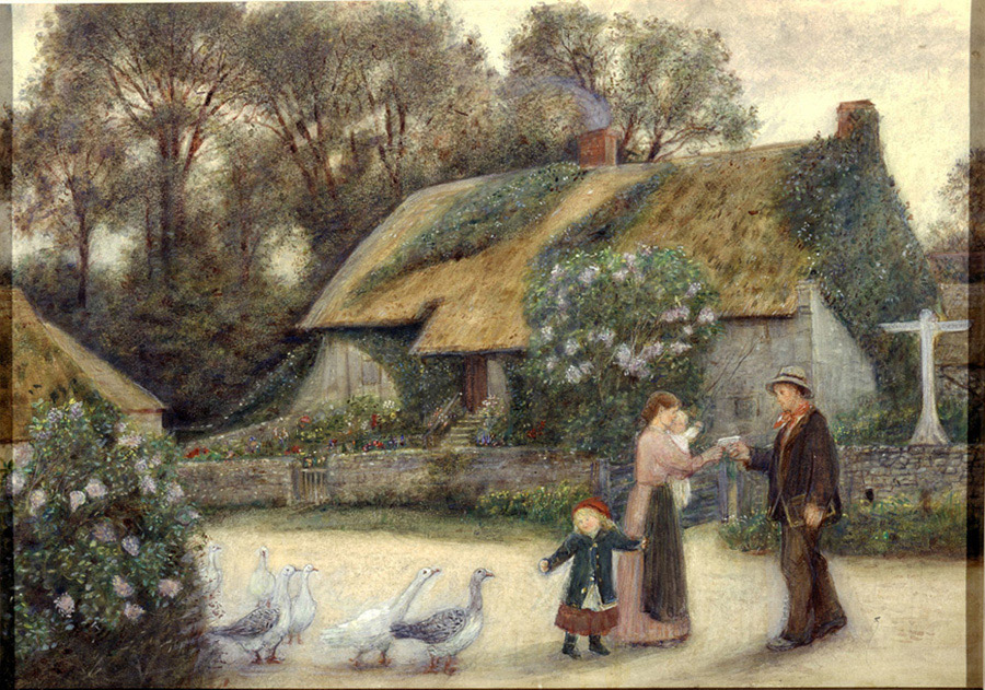 In 1864 Marie Spartali Stillman, the daughter of a wealthy merchant, and part of the large Greek community in London, began training as a painter with Ford Madox Brown. She developed a unique technique using multiple layers of watercolor and gouache (opaque watercolor) which looks very similar to an oil painting in finish. This scene depicts a farmyard on the Isle of Wight where her family had a vacation home. (see references)